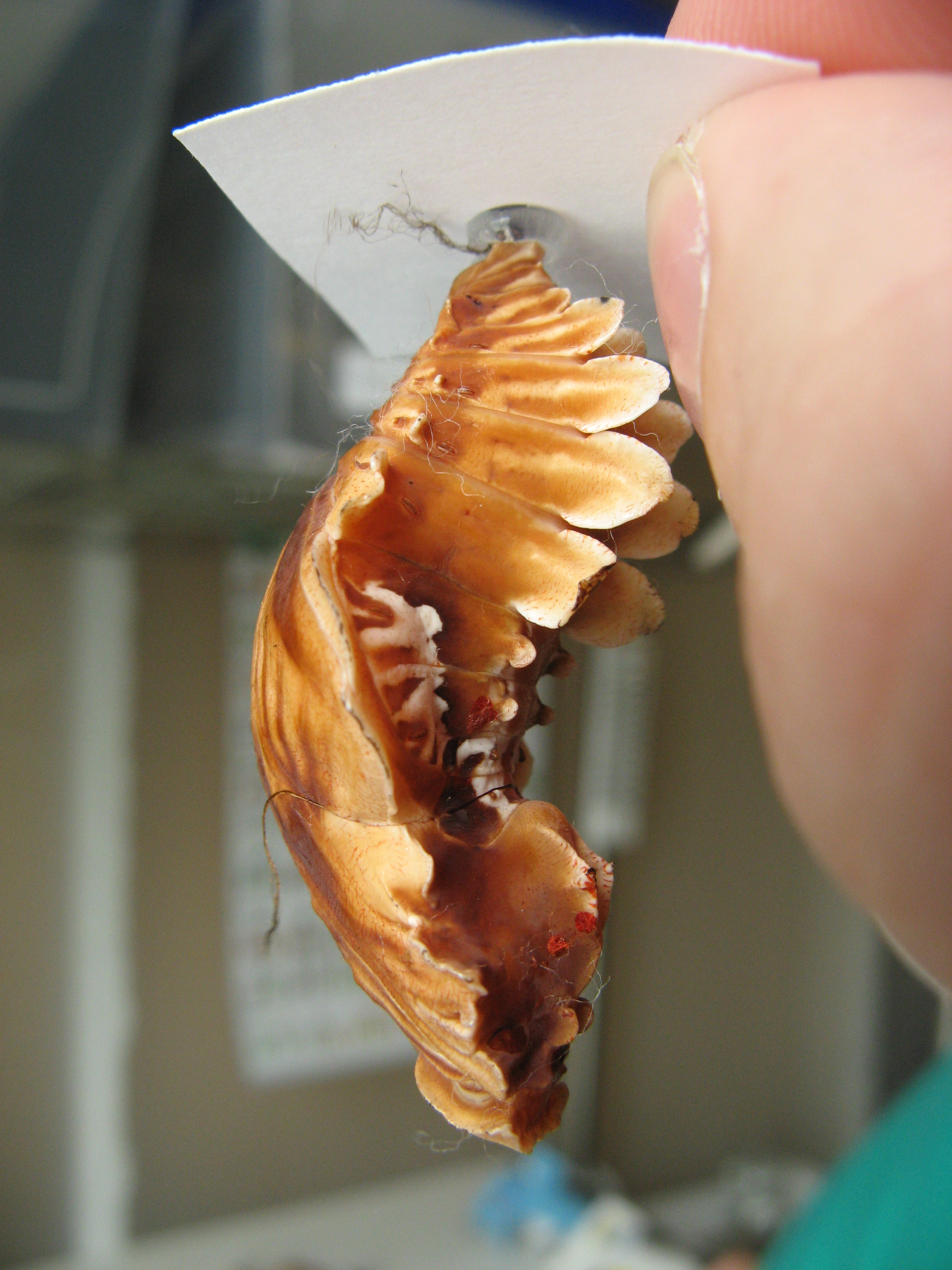 Atrophaneura semperi chrysalis, lateral view.